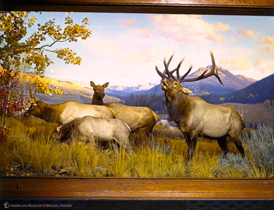 An anonymous photograph of a diorama in the American Museum of Natural History's Hall of North American Mammals.